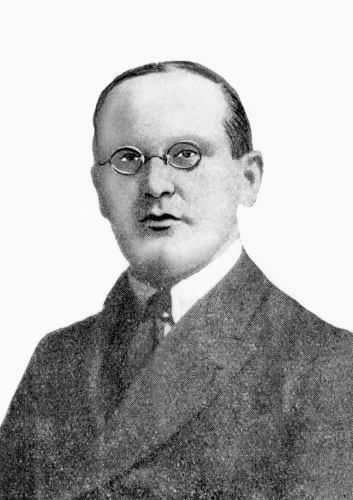 rakouský římskokatolický kněz a politik Sturm Josef